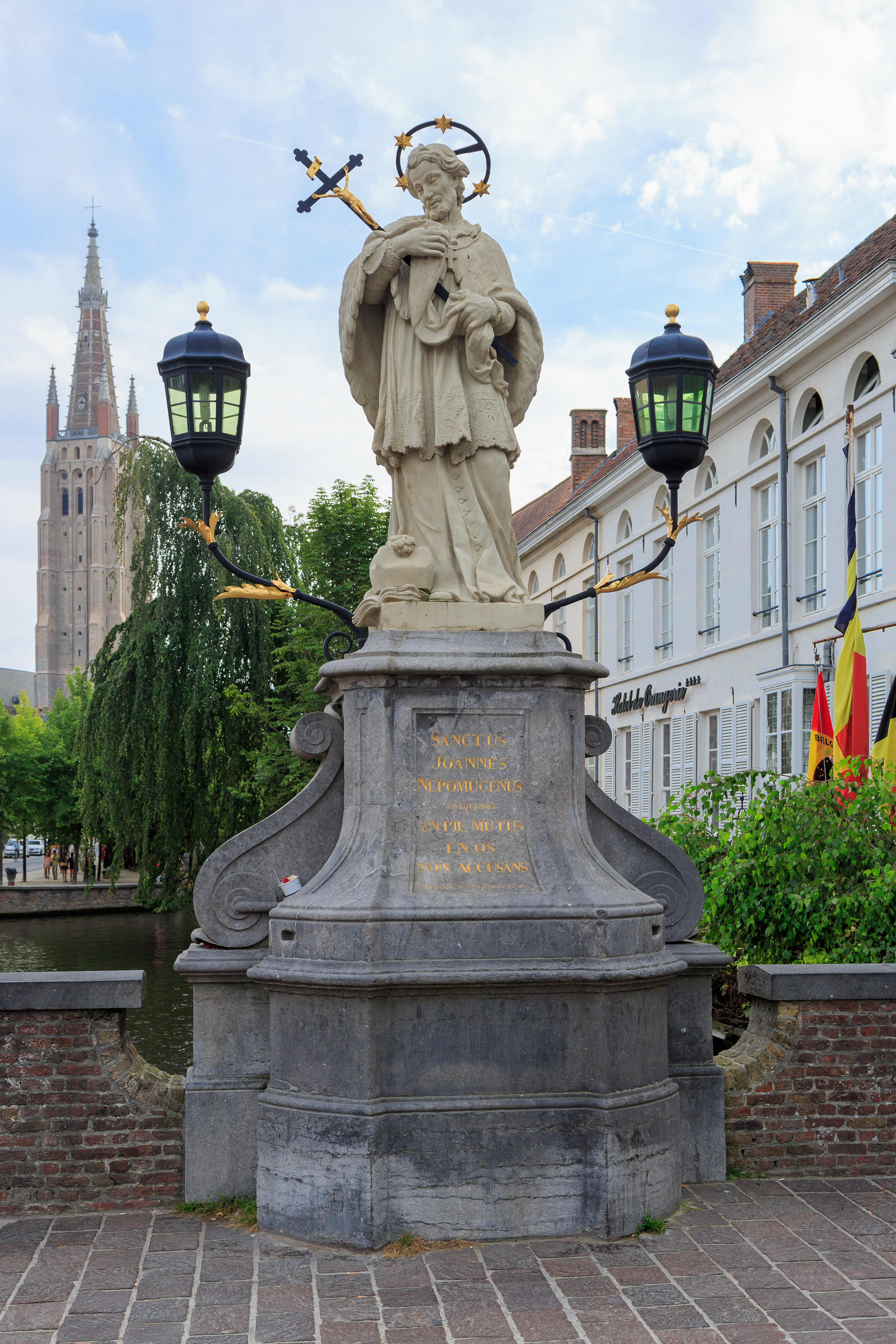 Bruges, Belgium: Statue of John of Nepomuk in Bruges